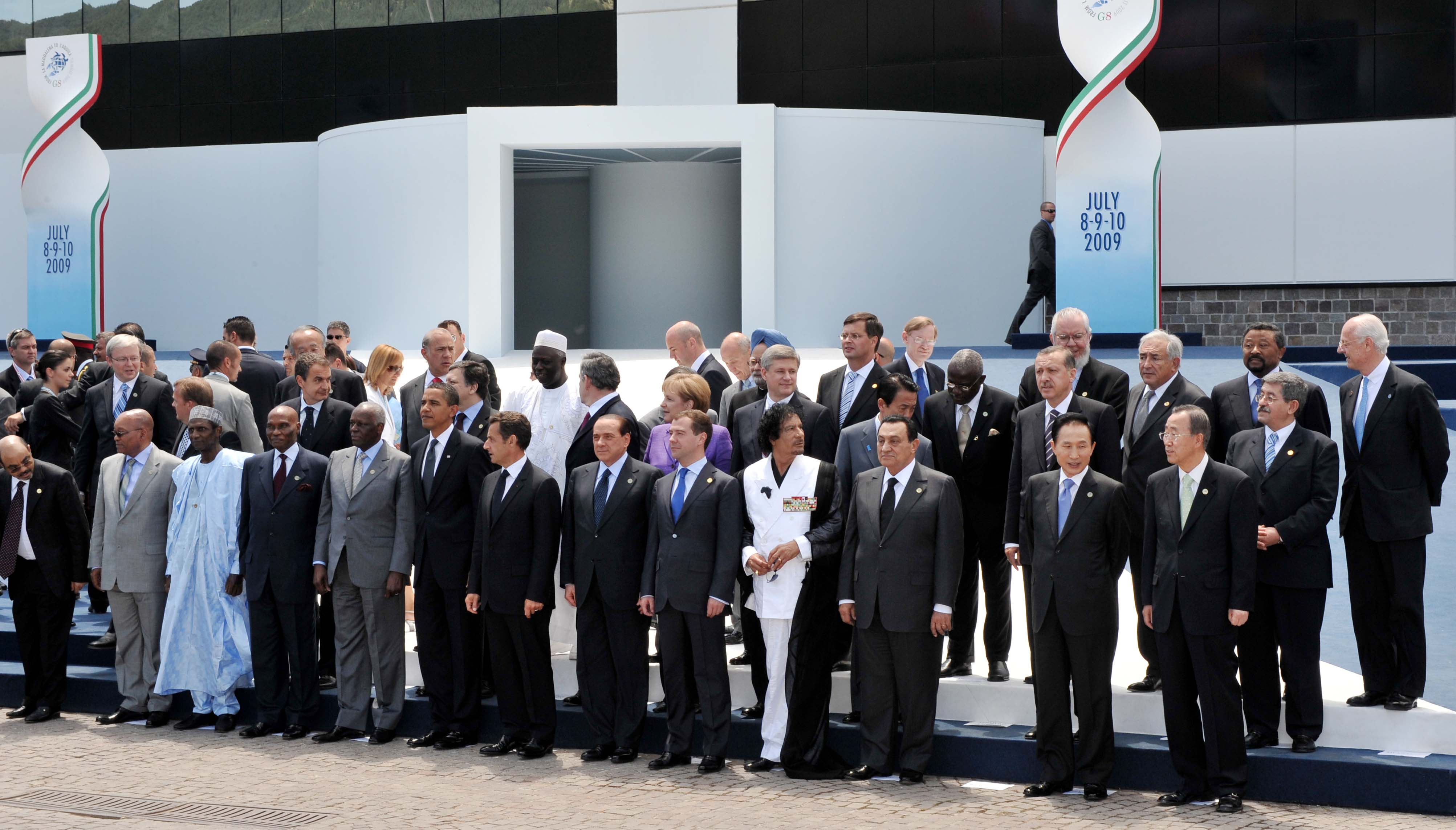 G8 Summit 2009 in L'Aquila, Italy